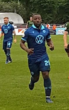 Full Album: HFX Wanderers FC - Cavalry FC 06/19/2019 Sergio Camaro (#10, Cavalry FC) disputing the ball with Matthew Arnone (#23, HFX Wanderers FC) during a Canadian Premier League at Wanderers Grounds in Halifax, Nova Scotia, Canada, on June 19, 2019.